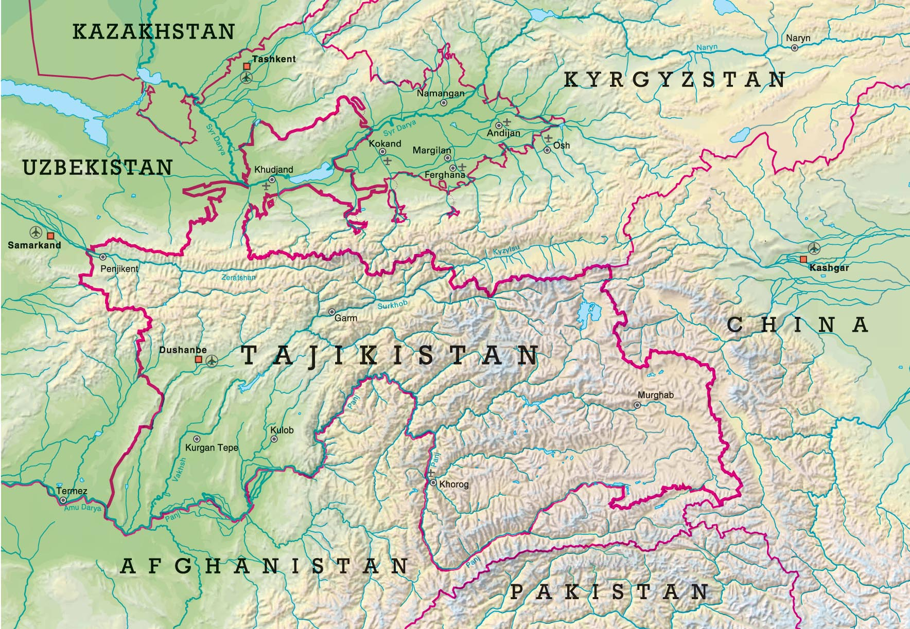 Overview Map of Tajikistan